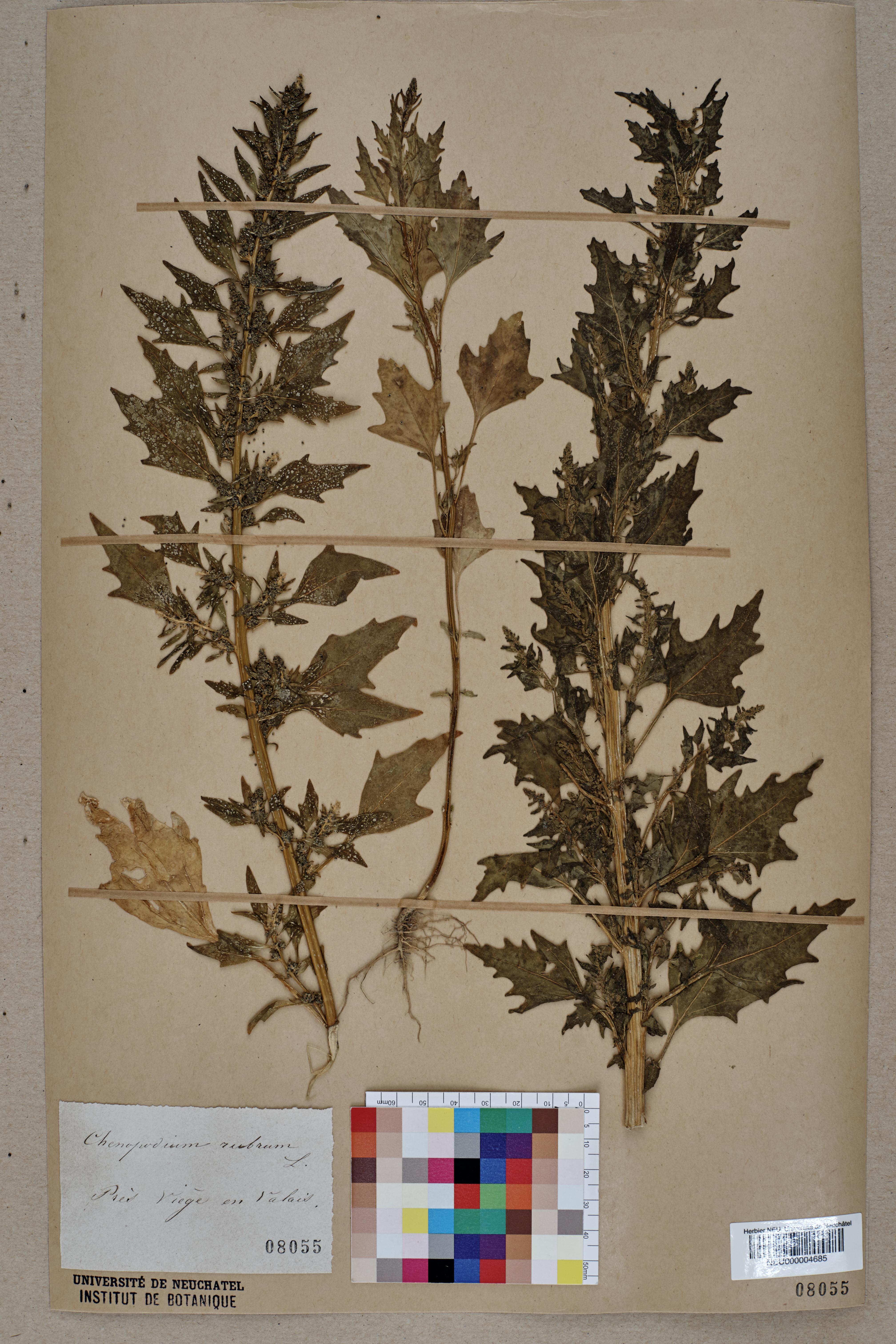 Dried pressed specimen of Chenopodium rubrum